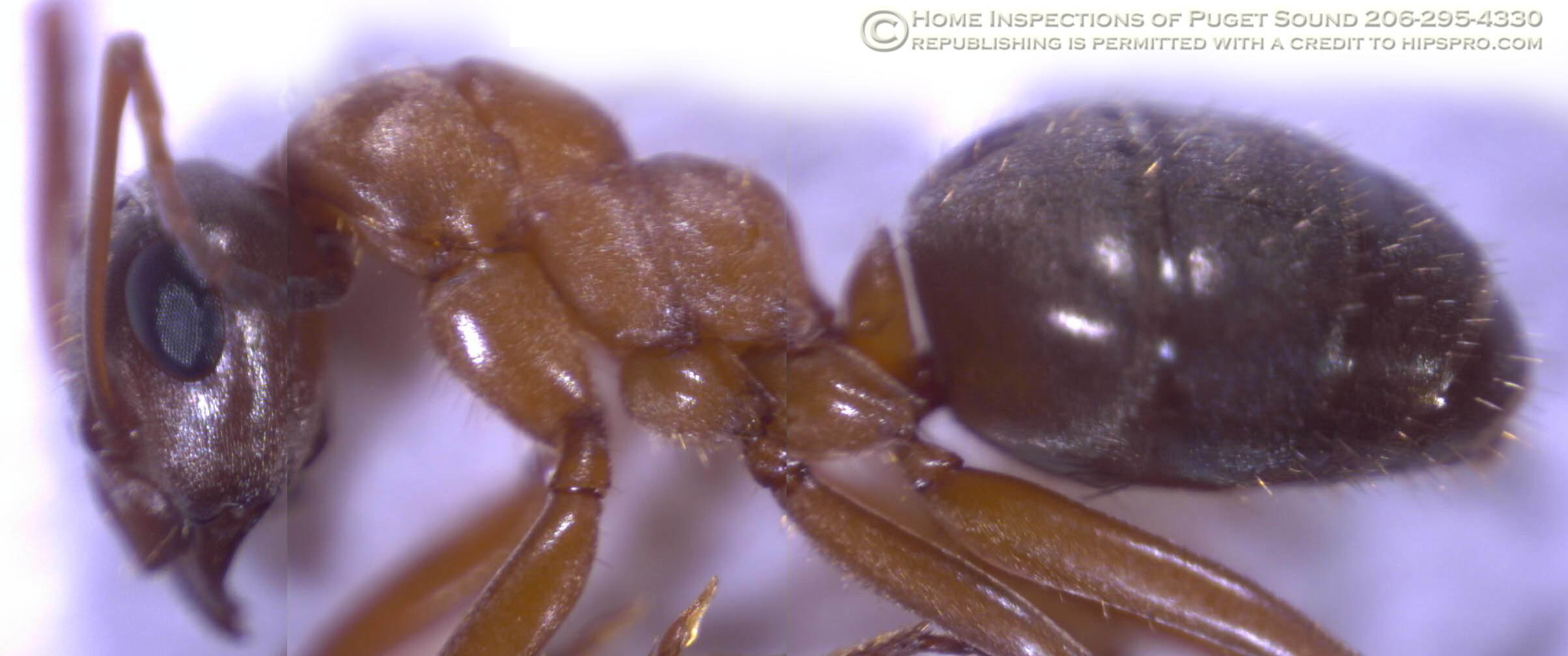 Common wood destroying ant, will only infest very wet wood